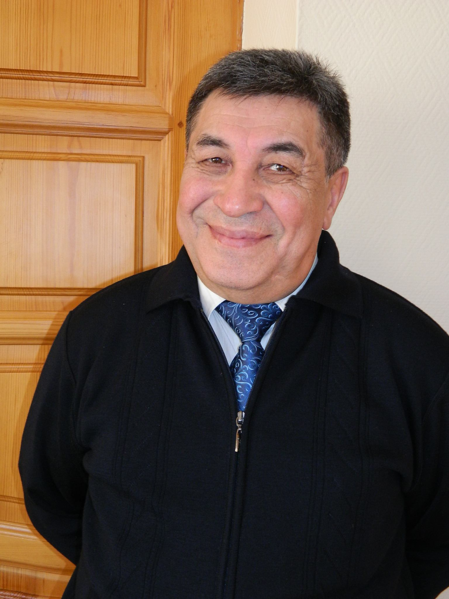 People's Artists of the Republic